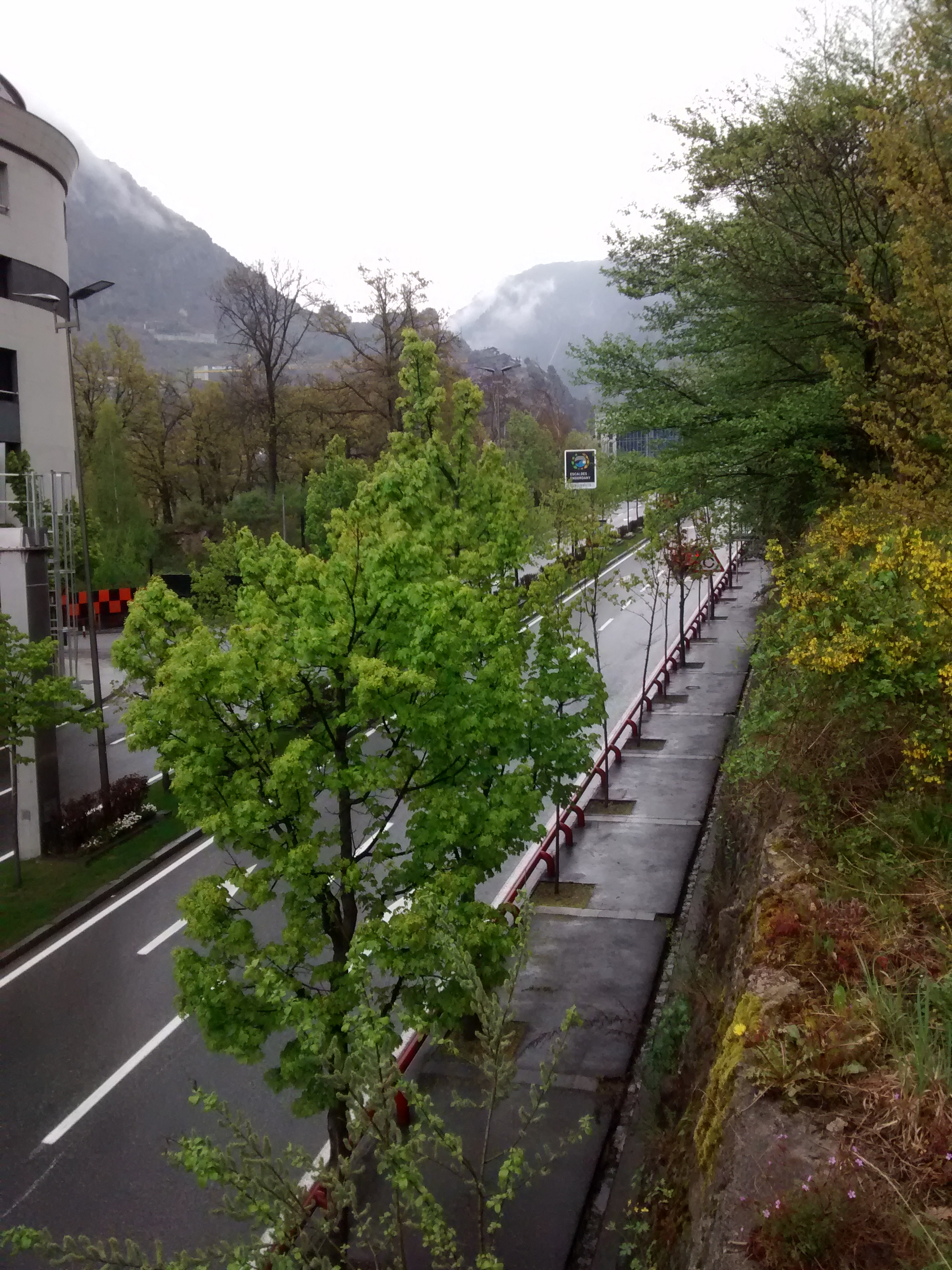 CG-2, a major road in Andorra, near the roundabout where it becomes CG-1.